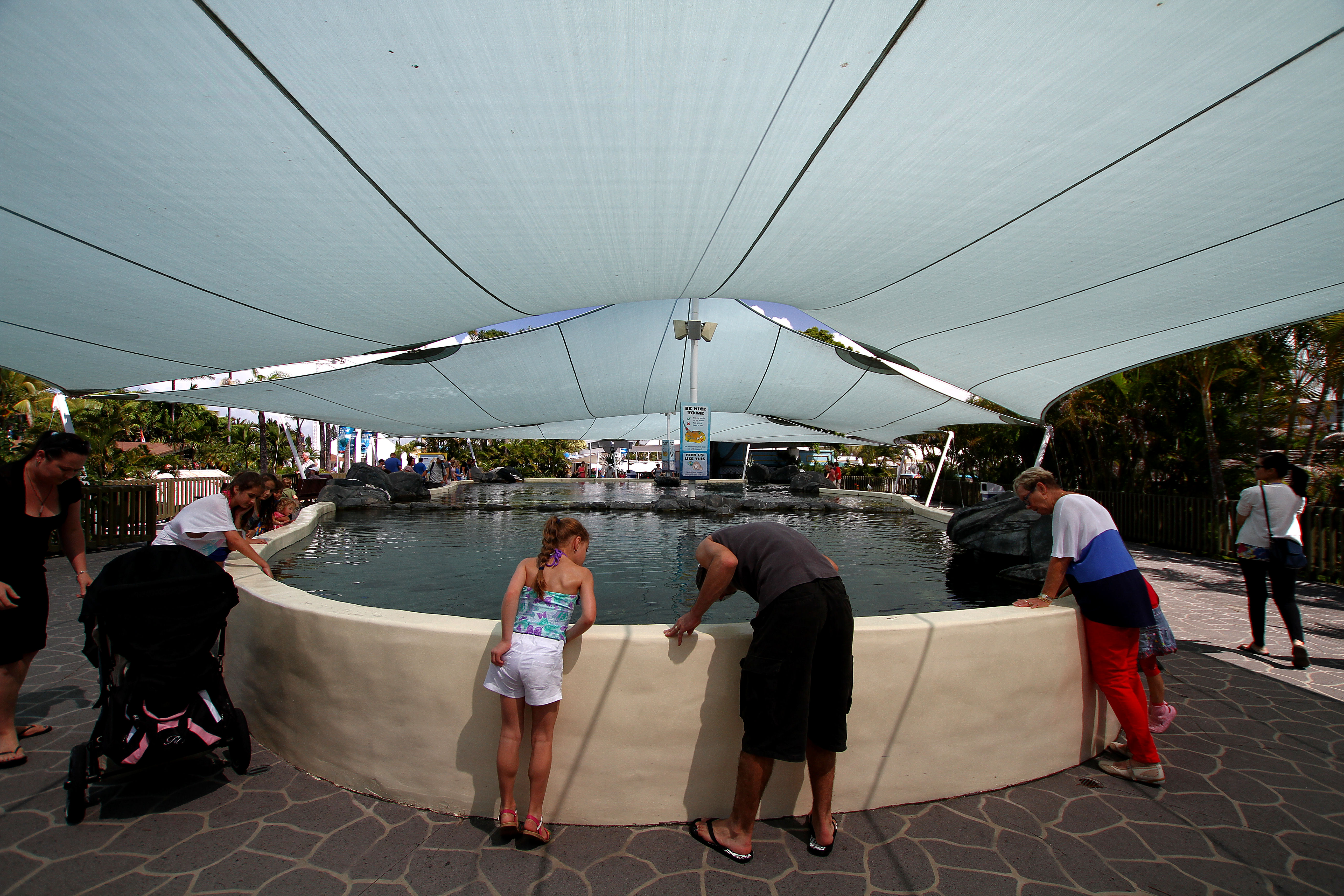 Honeymoon. Gold Coast Australia